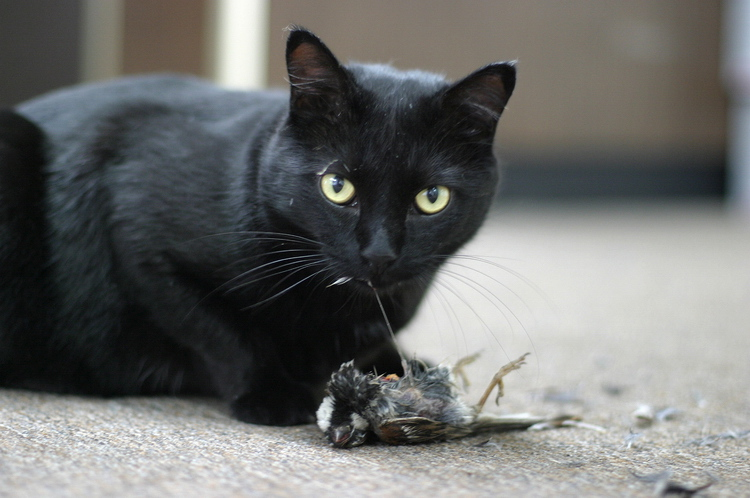 Domestic [Bombay] cat eating a House Sparrow she brought to the home of her owner